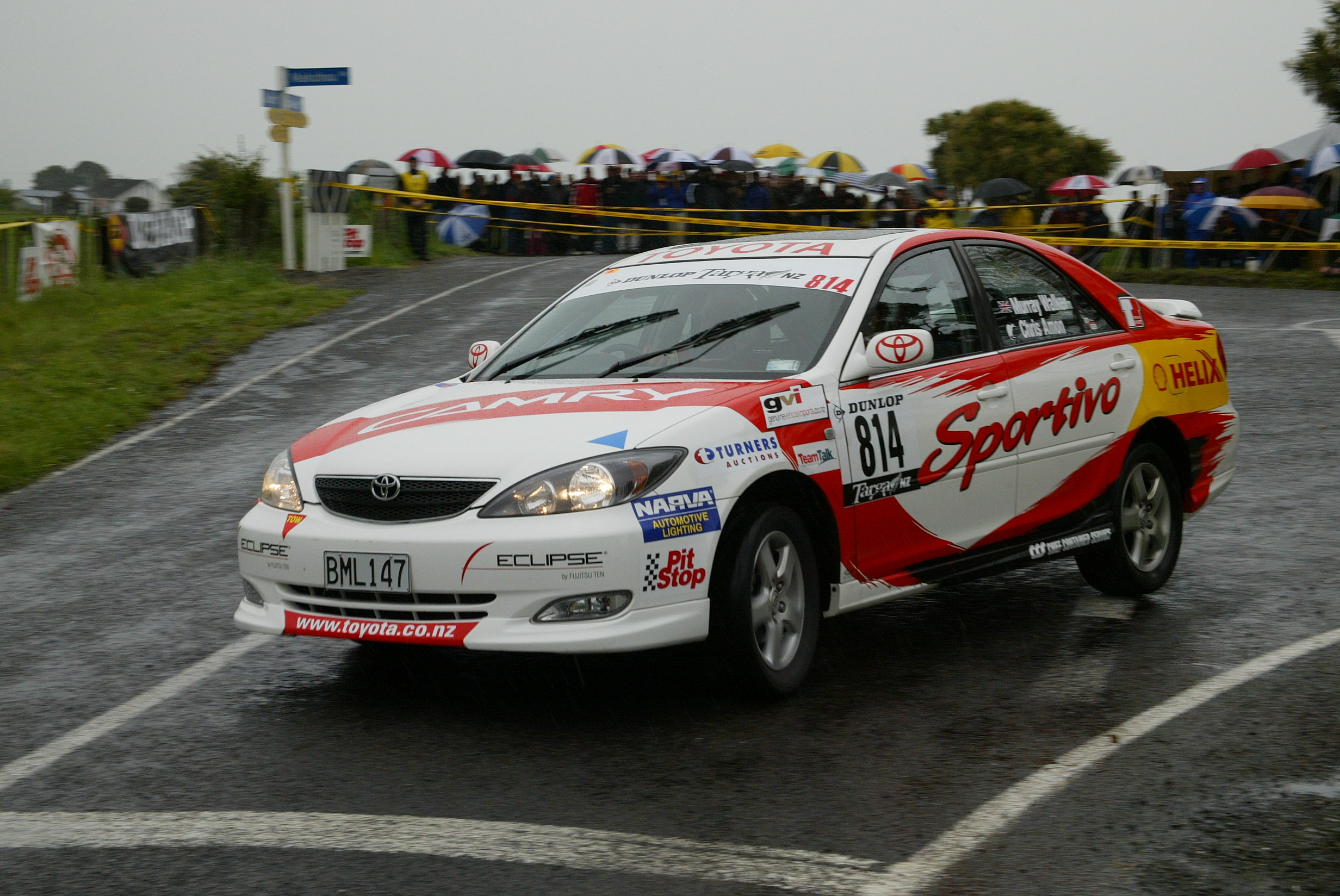 Chris Amon and Murray Walker competing in the 2003 Dunlop Targa New Zealand.